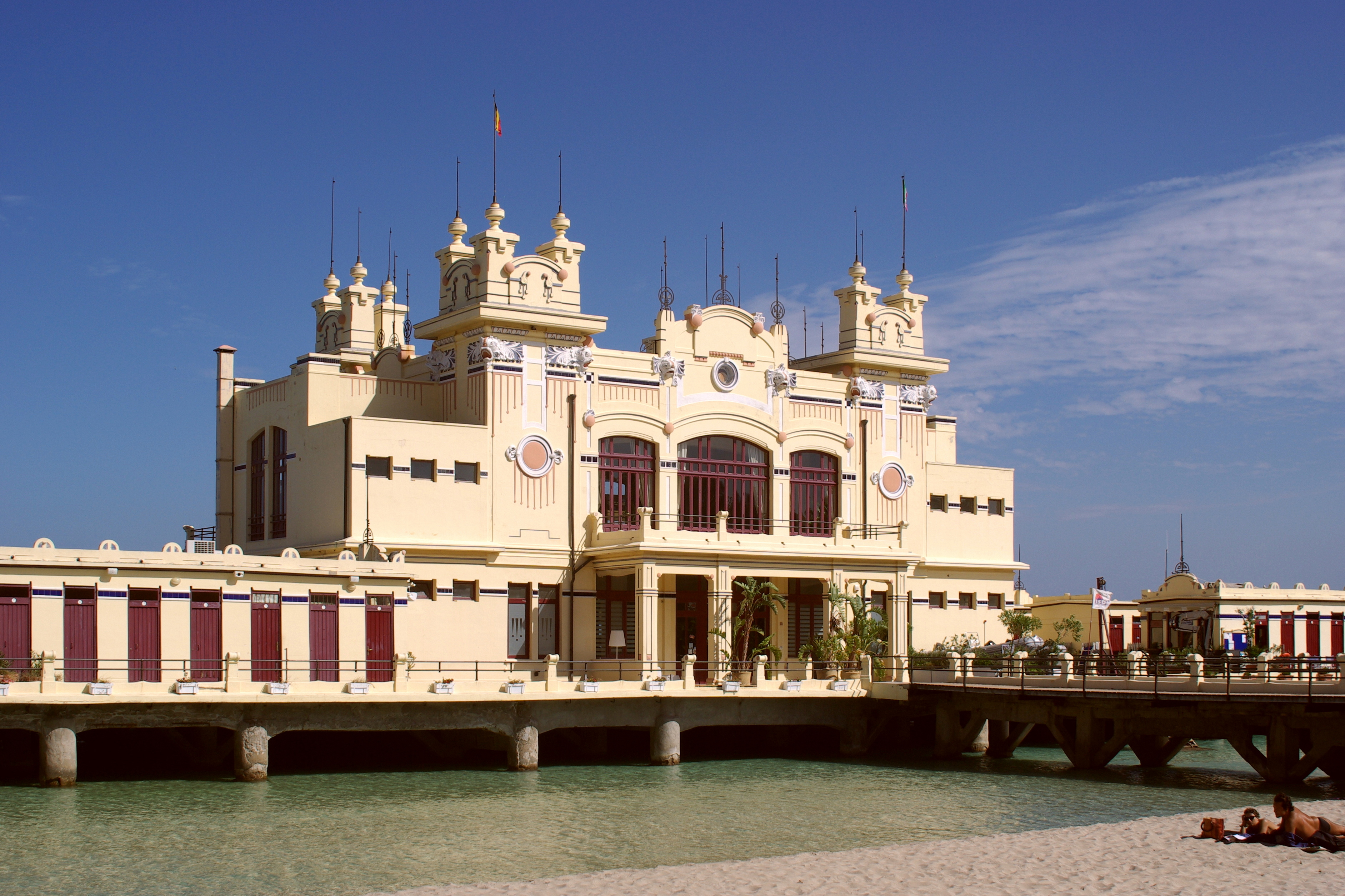 Italy, Sicily, Palermo, Mondello